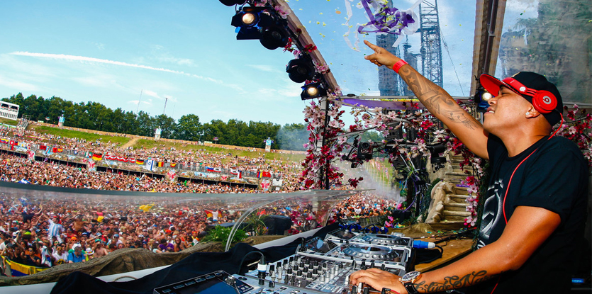 TomorrowLand - Boom / Belgium